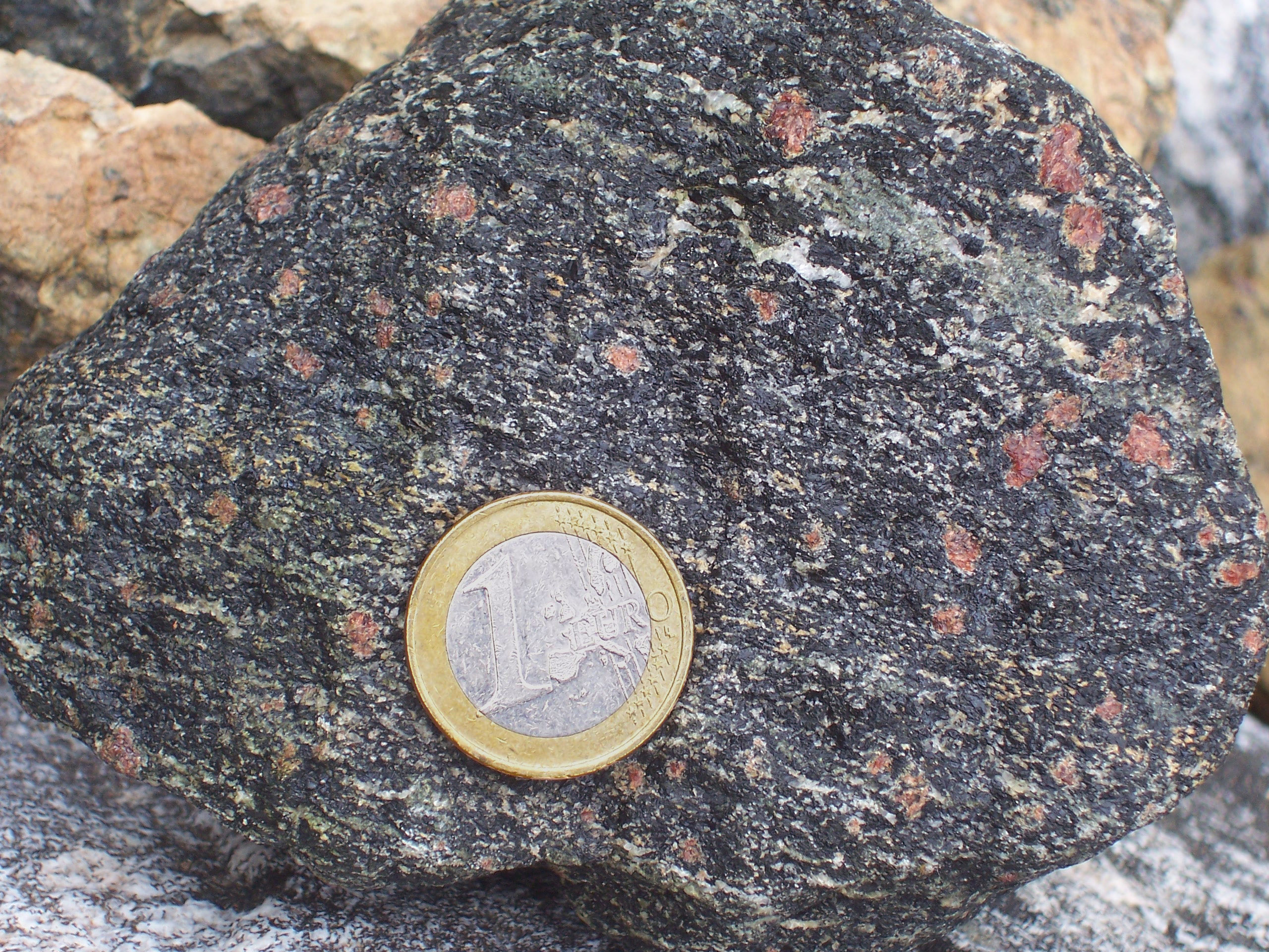 Amphibolitic gneiss, coarse grained. Dark minerals are amphibole, red is garnet, white is plagioclase. Island of Otrøy, Møre og Romsdal province, Norway. Rock is tectonically part of an allochthon (i.e. paleocontinent Laurentia) nappe. Coin of one euro for scale.